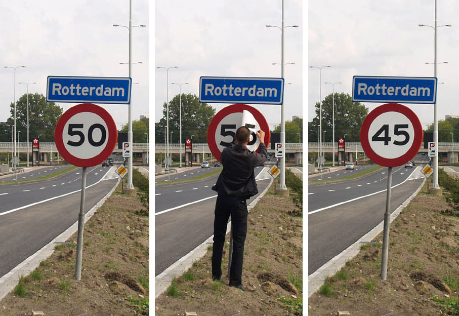 Illegal and anonymous intervention in public space.